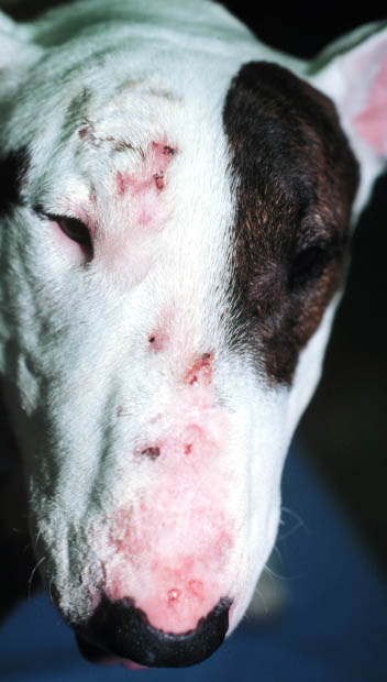 Bull terrier with solar dermatitis and furunculosis